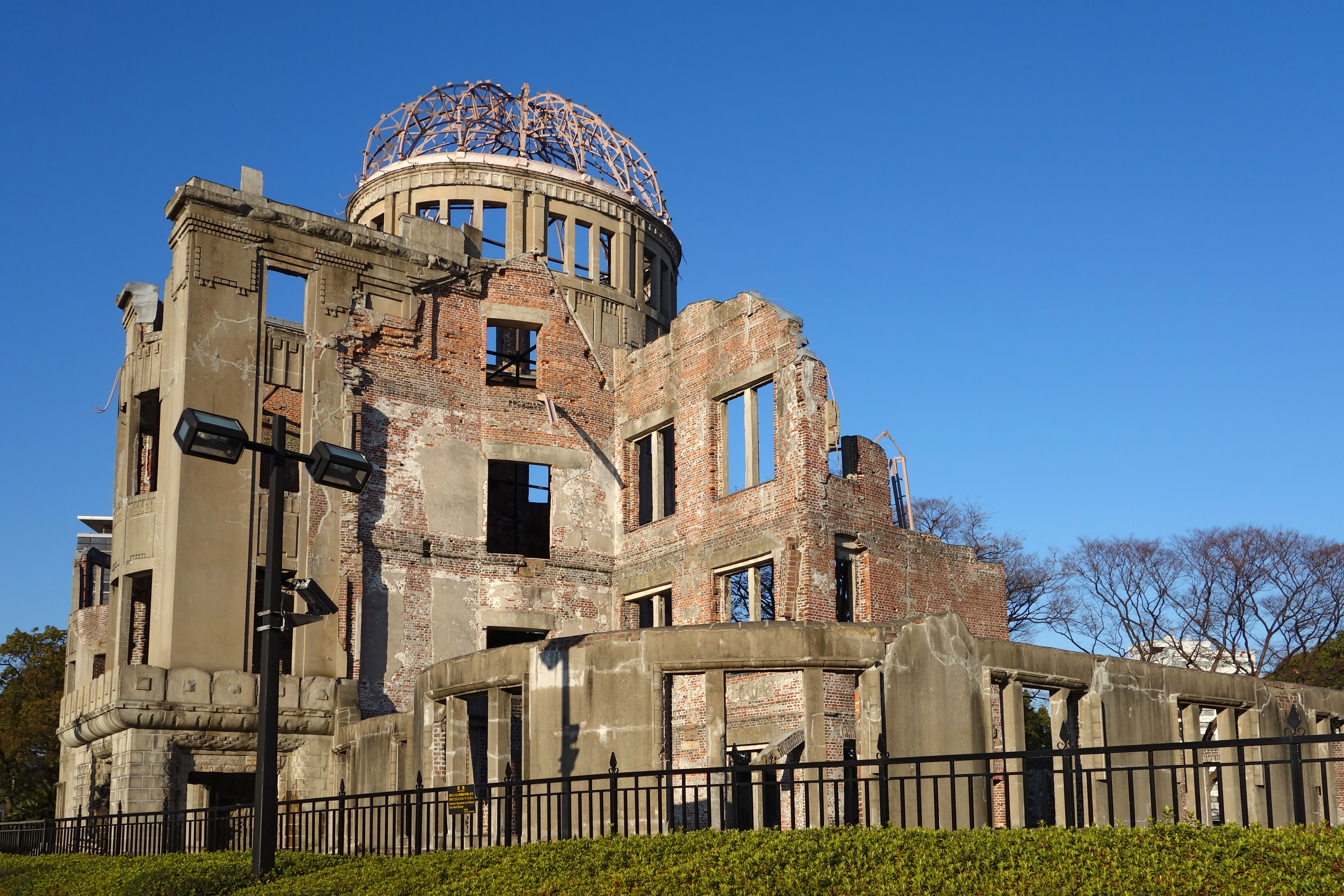 Genbaku Dome (原爆ドーム), Hiroshima, Hiroshima prefecture, Japan